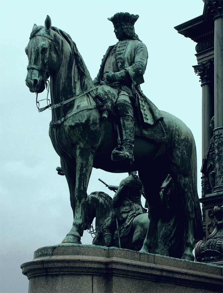 Die Statue Trauns, am Maria Theresia Denkmal in Wien.